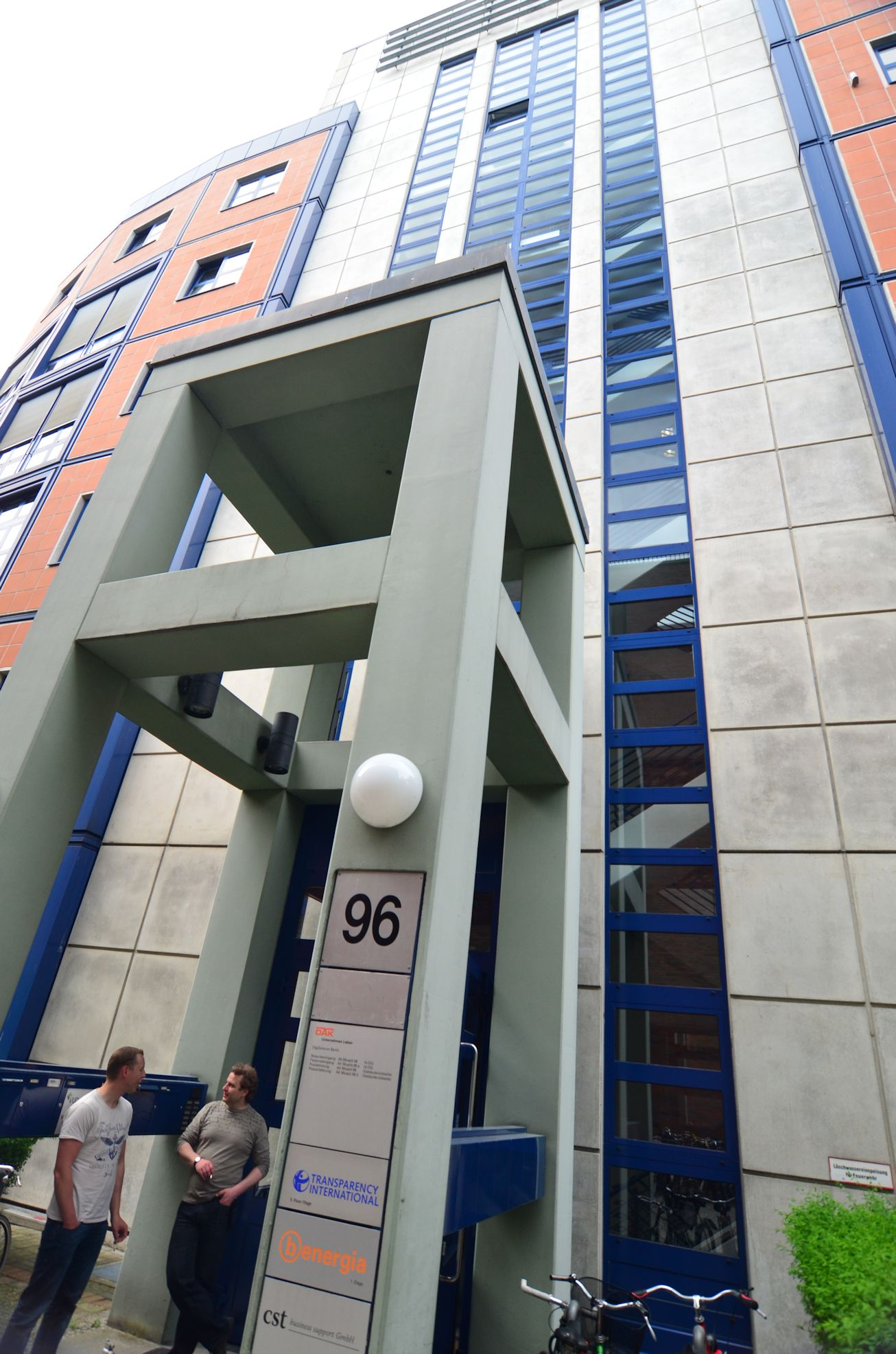 The secretariat of Transparency International, Alt-Moabit 96, Berlin, Germany (5th floor).